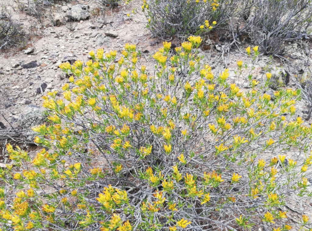 Pteronia paniculata